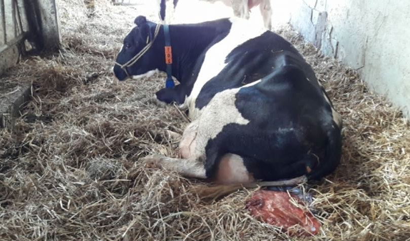 Nach dem Kalb wird die Plazenta geboren